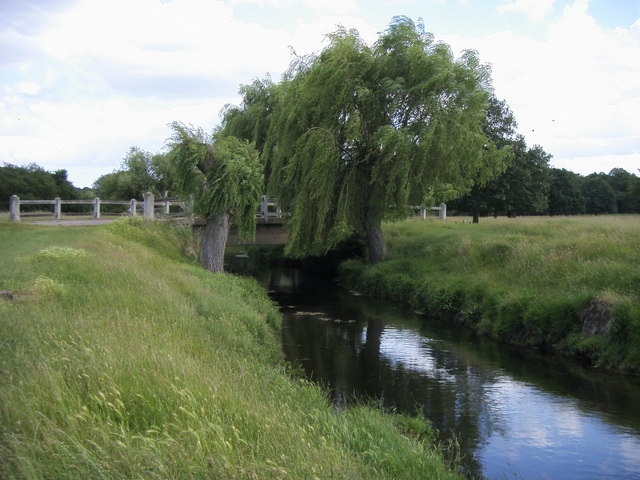 Beverley Brook Beverley Brook near Roehampton Gate in Richmond Park